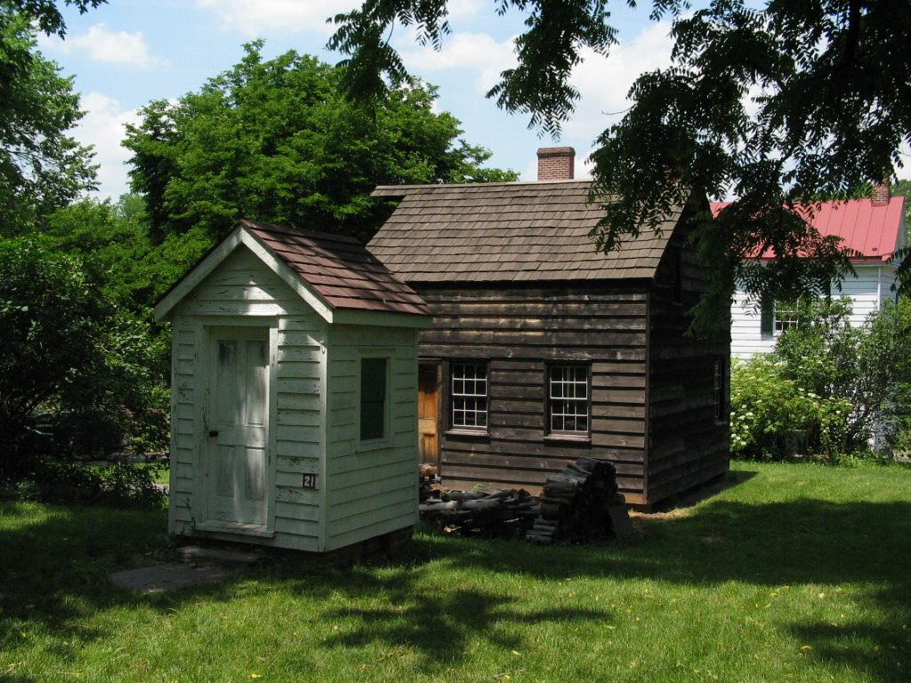 The old country living style as of colonial times is still kept at Richmond Town